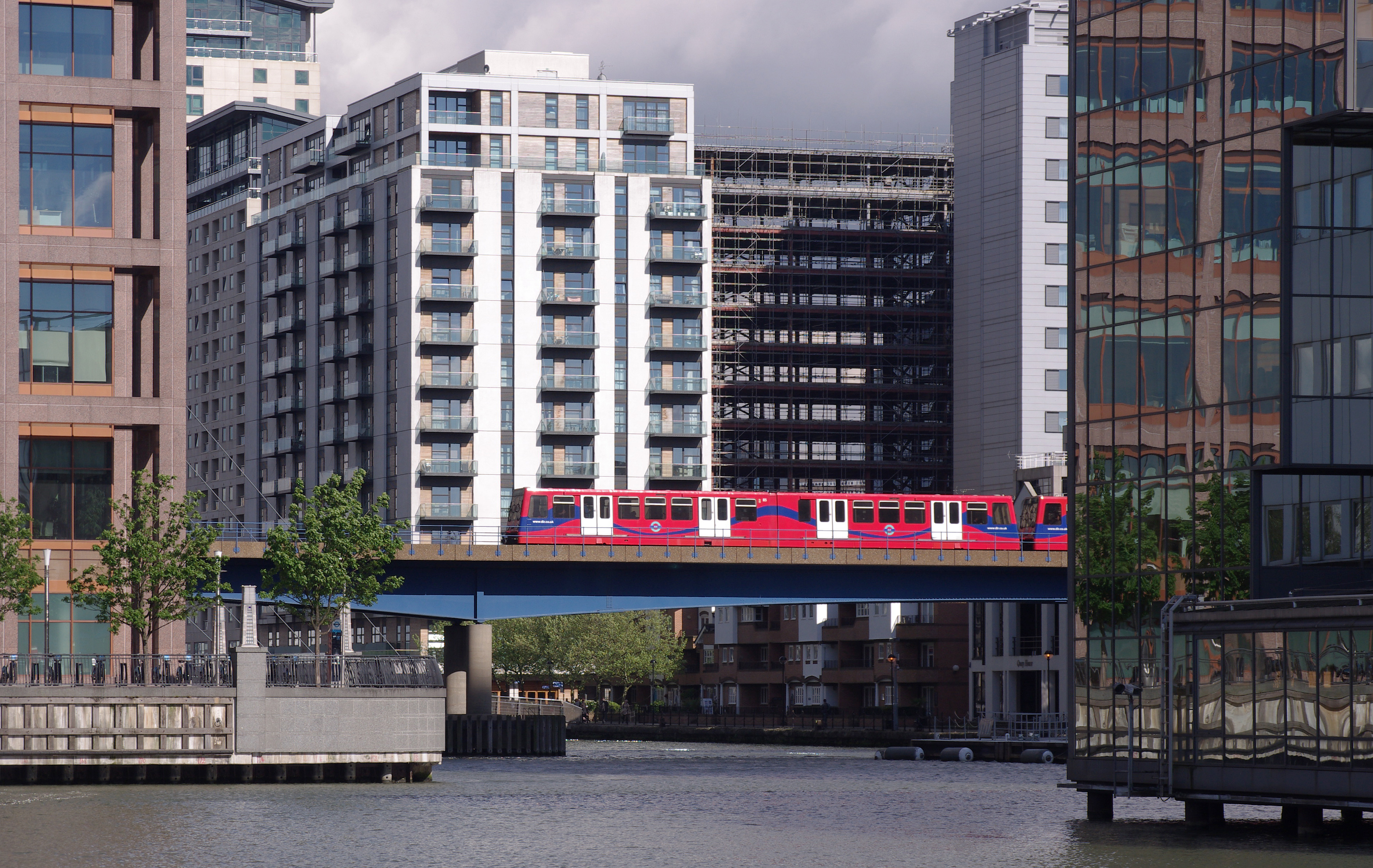 DLR type B92 #85 crosses the Heron Quays bridge.